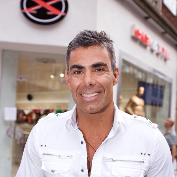 Luis Mentado's (XTG Extreme Game founder) picture taken by me.